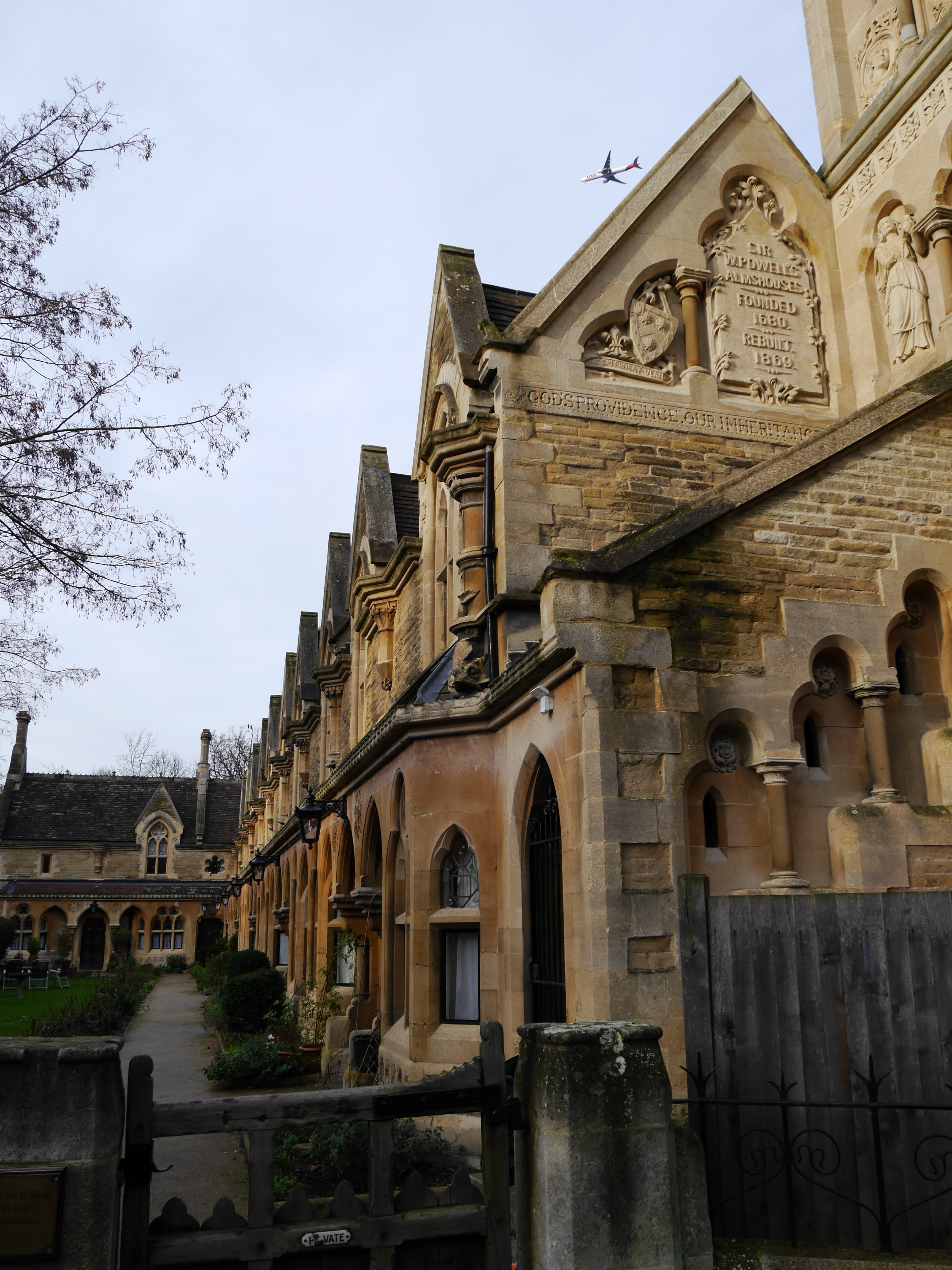 Sir William Powell's Almshouses Wikidata has entry Q15277941 with data related to this building.